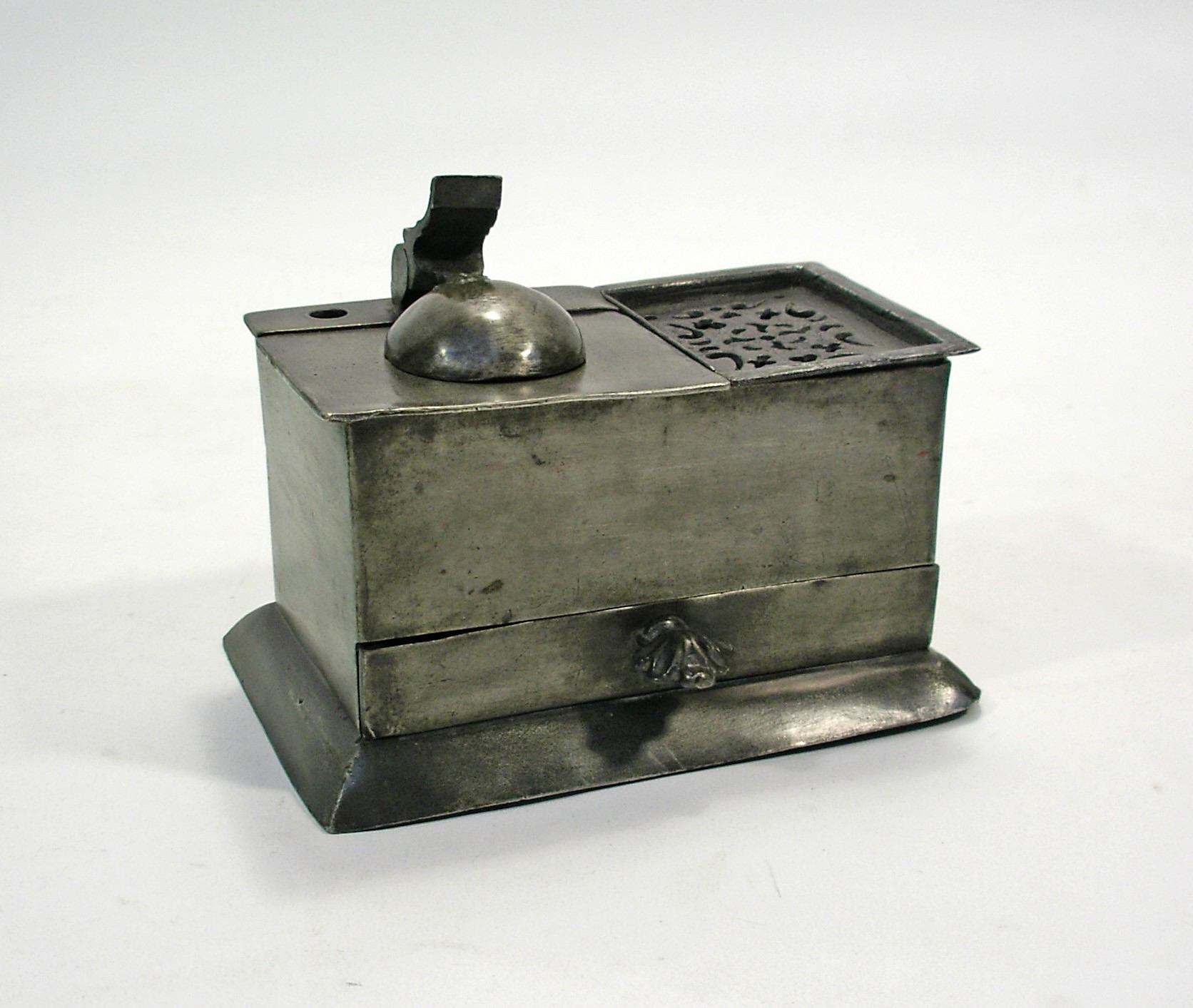 A tin ink set (so-called 'Raadsheertje'), containing an ink pot, a sand spreader and a pencil. Marked with the Amsterdam city coat of arms and the initials of the tin maker M.B. (see: B. Dubbe, Dutch tin setters and tin marks, p.126, no. 3376) Height 11 cm, width 13 cm. Dating mid 18th century.